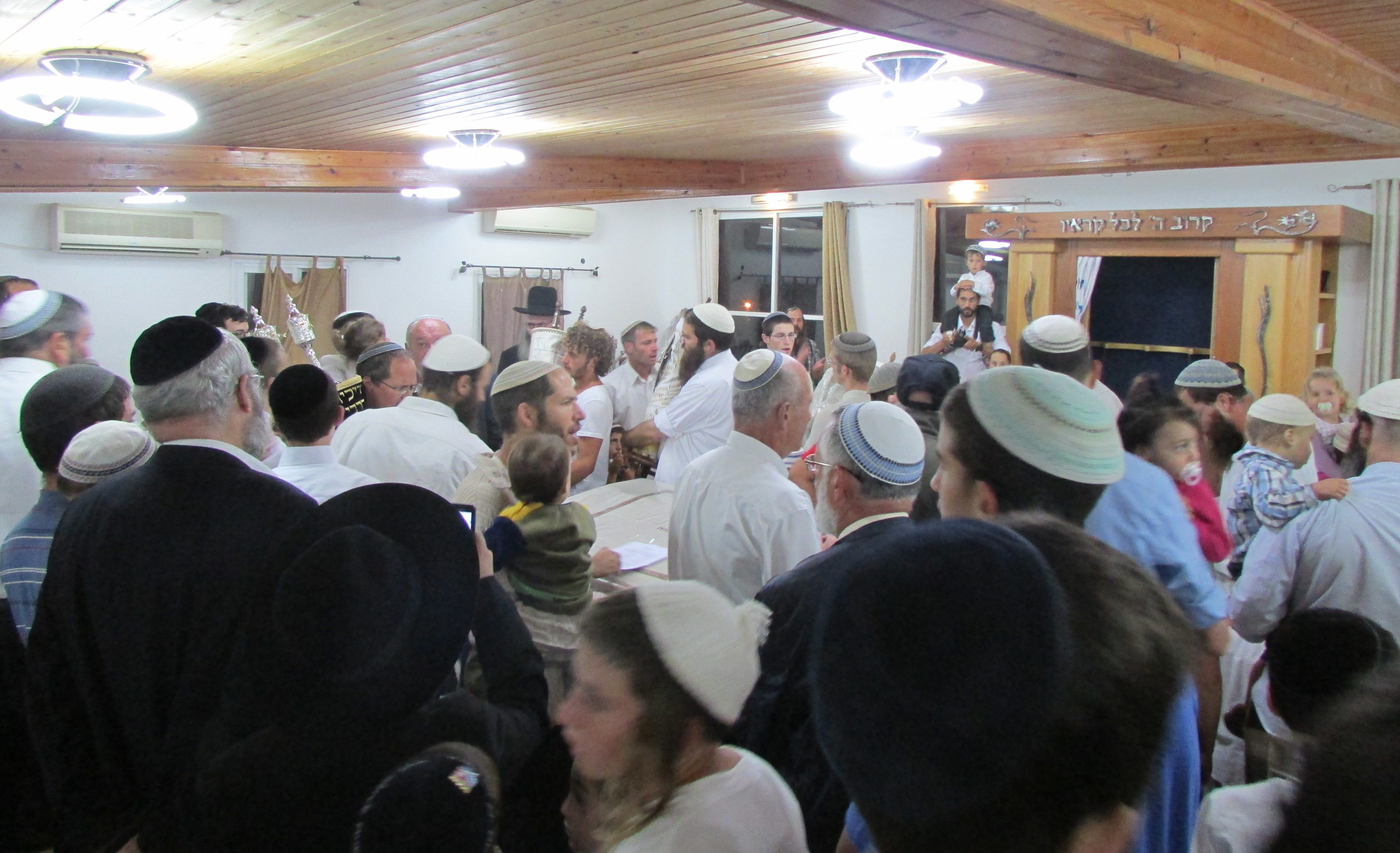 Inaugorating a new Torah in Amona.